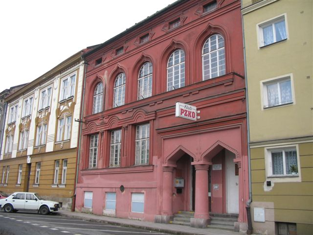 Shomre-Shabos Synagogue in Czeski Cieszyn